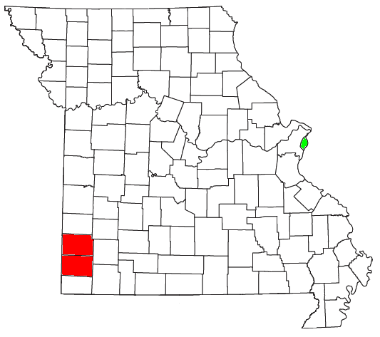 Locator map of the Joplin Micropolitan Statistical Area in the southwestern part of the U.S. state of Missouri, with the city of St. Louis highlighted in green.